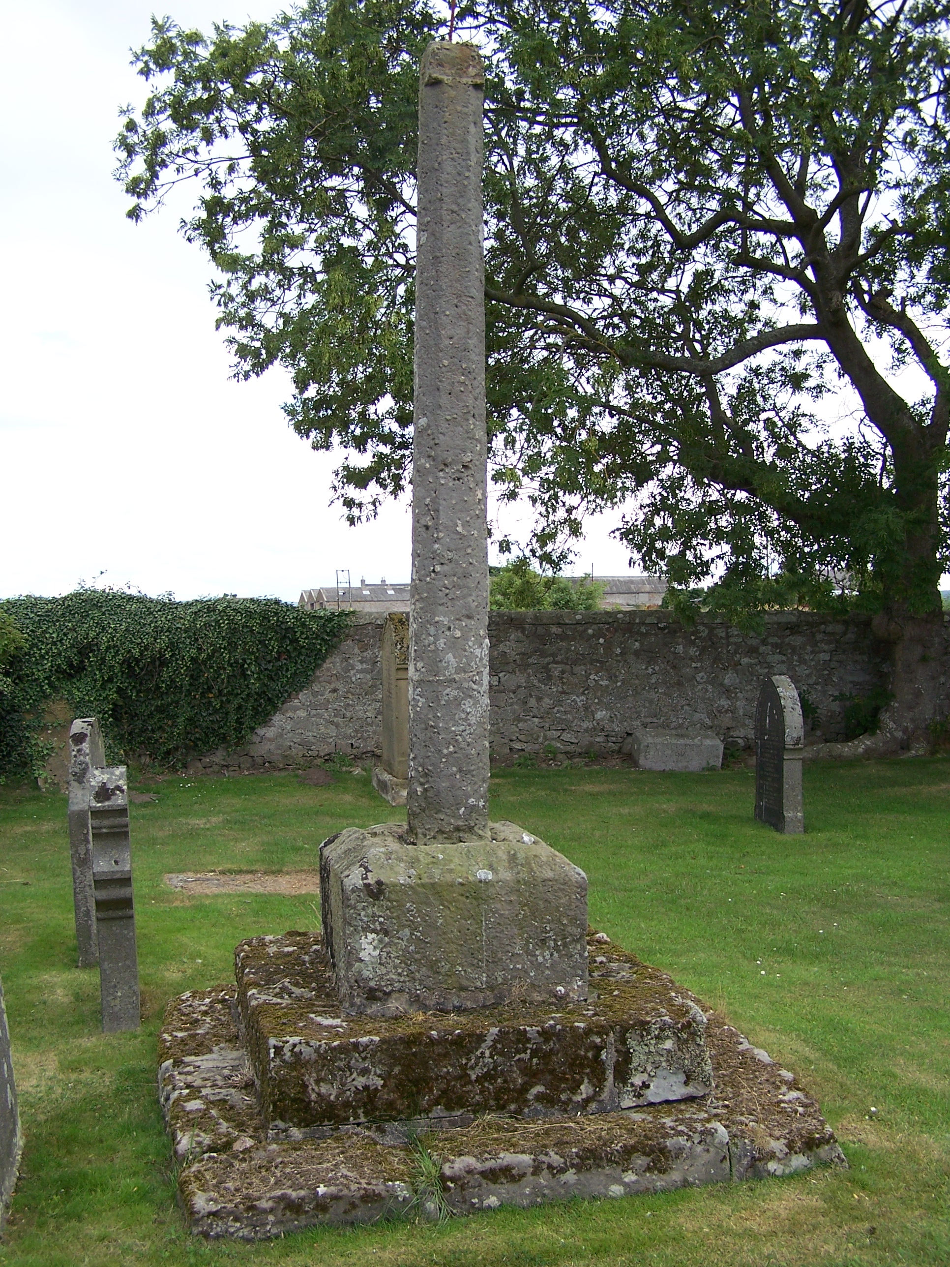 The mercat cross for Kinneddar village in Lossiemouth, Scotland